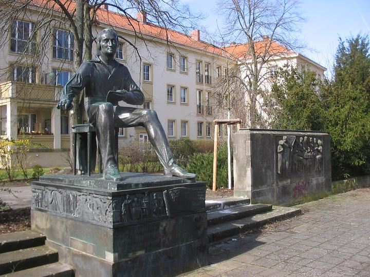 Heinrich-Heine-Monument, created by the sculptor Waldemar Grzimek, unveiled in 1956, in the „Sozialistische Wohnstadt“ (Dichterviertel) (german for: socialistic town, also called: poets quarter) in Ludwigsfelde. Ludwigsfelde is a town in the district Teltow-Fläming, state Brandenburg, Germany.